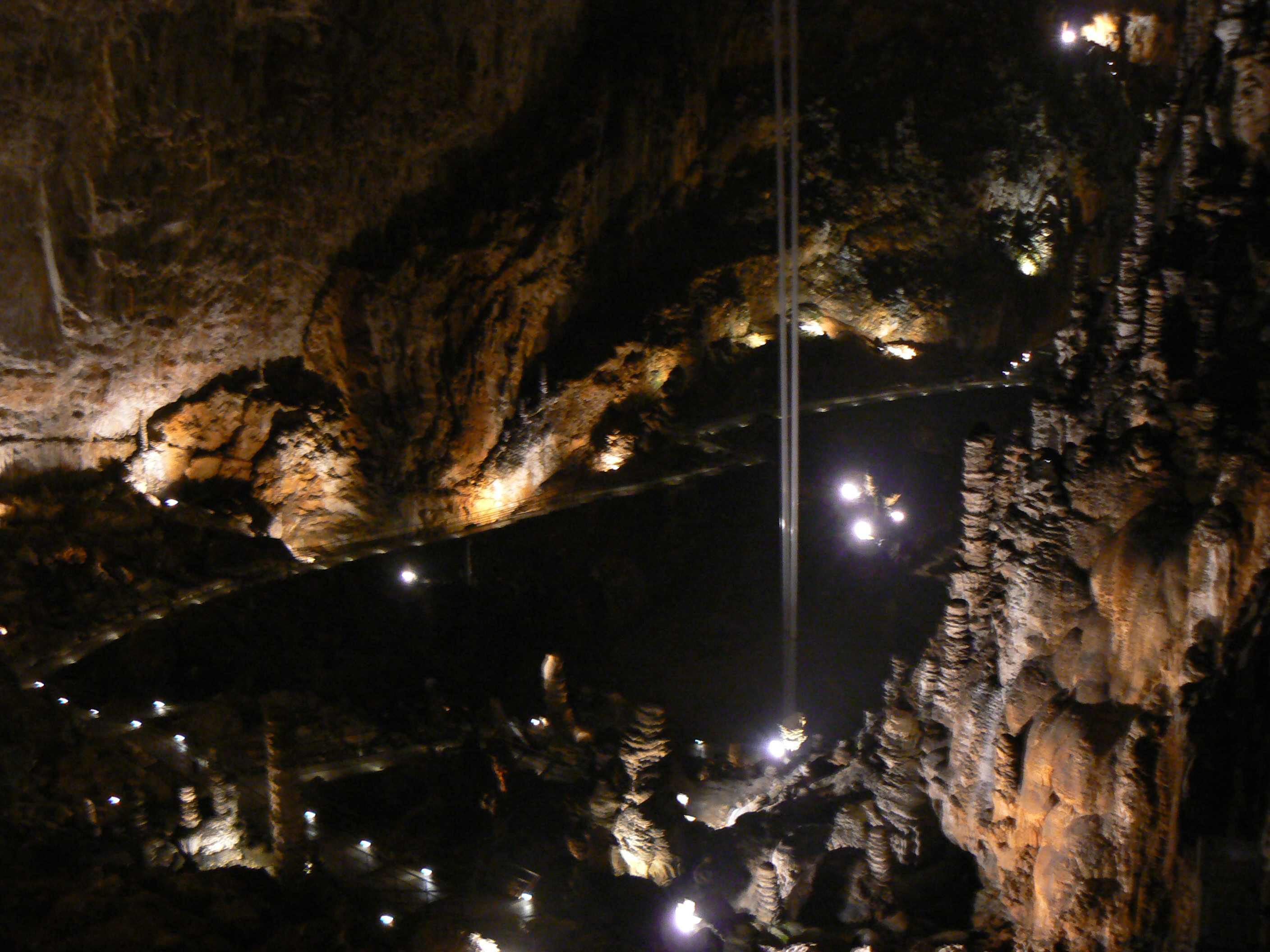 After starting to go down through the very long stairs of the beginning of the route, you'll start to see the huge main room of the cave, with a lot of fantasic rock structures at both sides and roof of the cave.